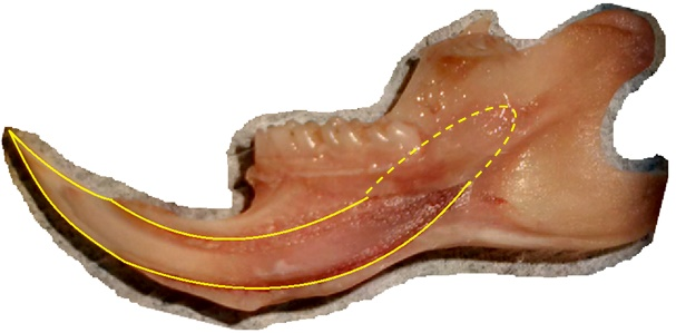 A lingual view of the lower incisor from the right dentary of a Rattus rattus. This image shows the extended view of the incisor that is normally hidden within the dentary. The dotted lines indicate the theoretical end of the incisor.